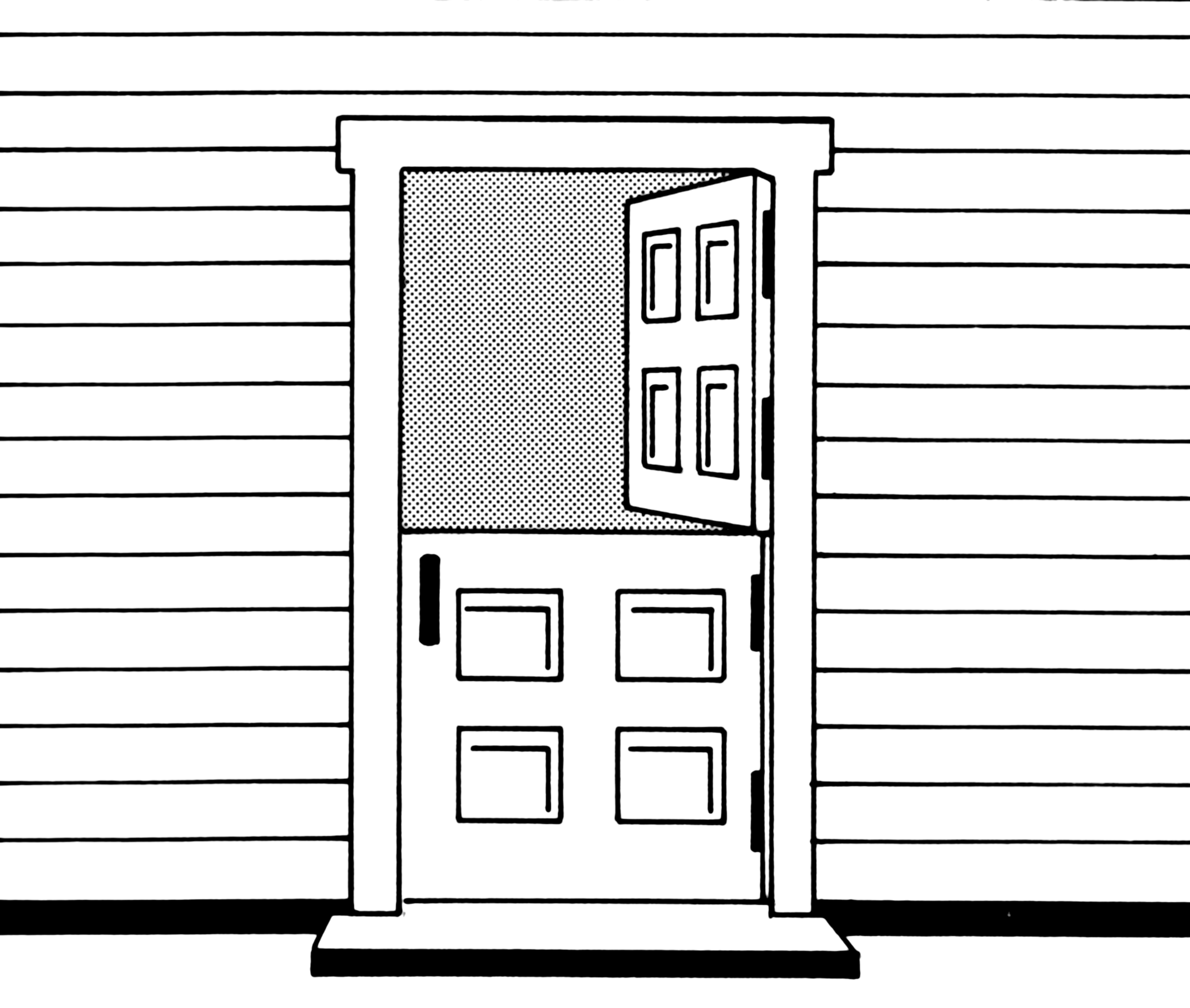 Dutch door